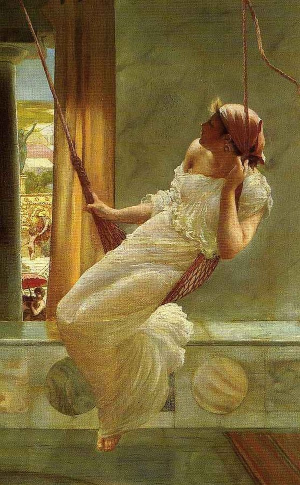 A woman rides a swing suspended from the ceiling of a marble building. Her hair is bound in a red scarf, and she gazes through the window. Watercolour.